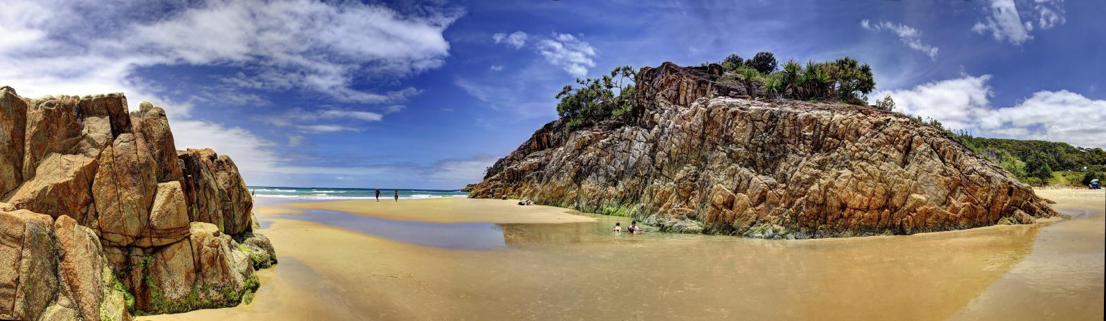 Little Bay, A beautiful little beach in Arakoon National Park, at South West Rocks. School holidays, sun surf and only and hand full of people…